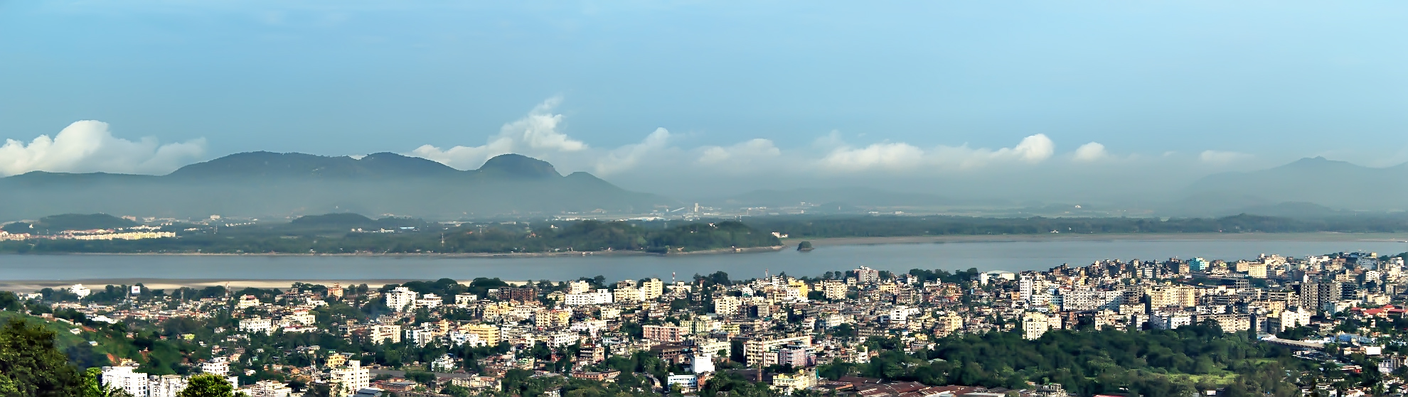 Guwahati (Assamese: গুৱাহাটী Guwāhāti (help·info)), Pragjyotishpura (Sanskrit:प्राग्ज्योतिषपुर) and Durjoya (Sanskrit:डुर्जय) in ancient Assam, and formerly known as Gauhati in modern era, is a metropolis, the largest city of Assam in India and is the fastest developing city in India, ancient urban area and now largest metropolitan area in north-eastern India.